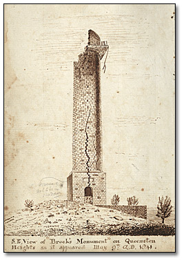 a depiction of Brock's Monument, damaged after an explosion